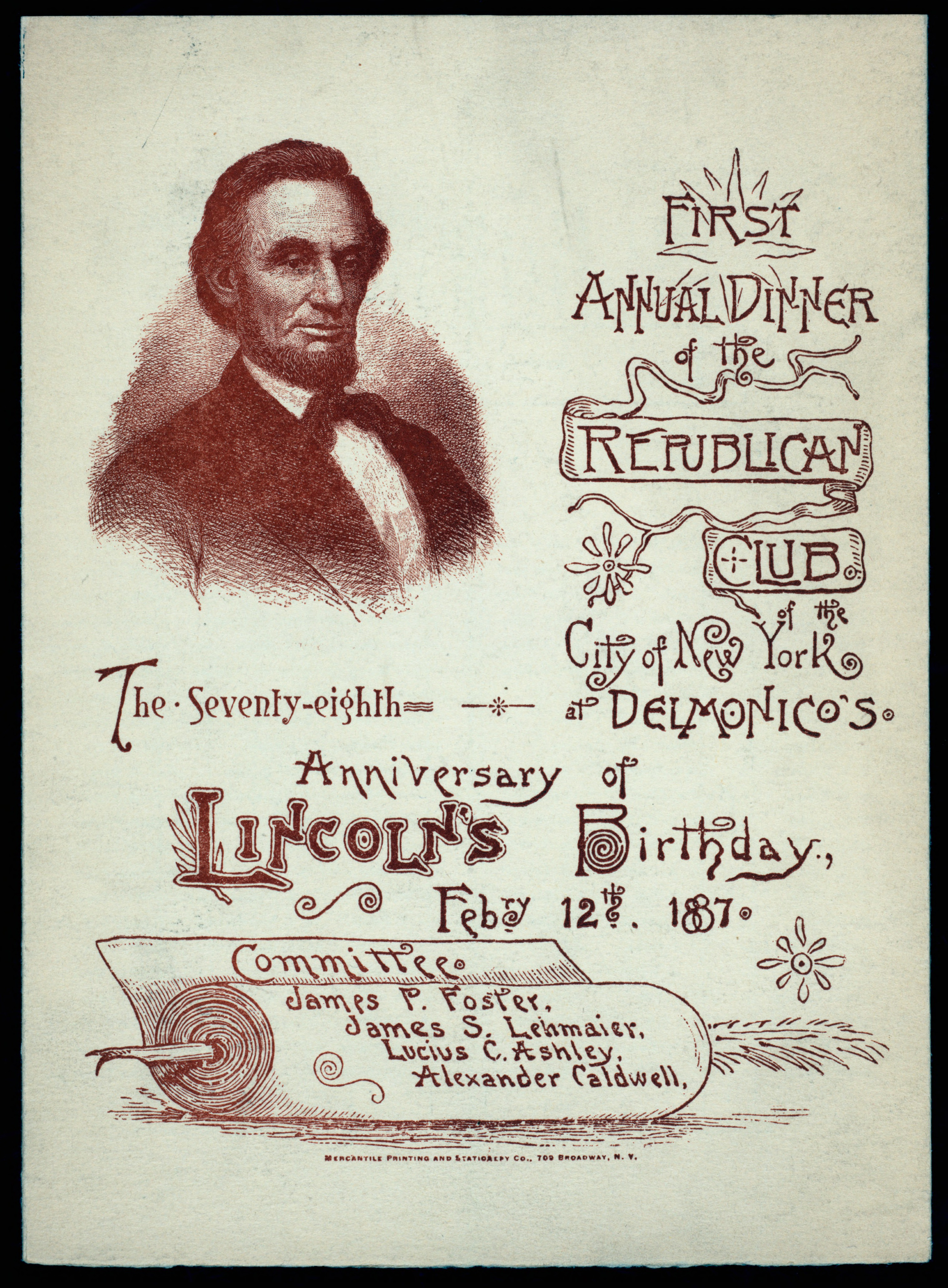 FRENCH; PORTRAIT OF LINCOLN ON COVER; PROGRAM INCLUDES TOASTS AND SPEECHES; ALSO INCLUDES SEATING PLAN AND COMMITTEE NAMES